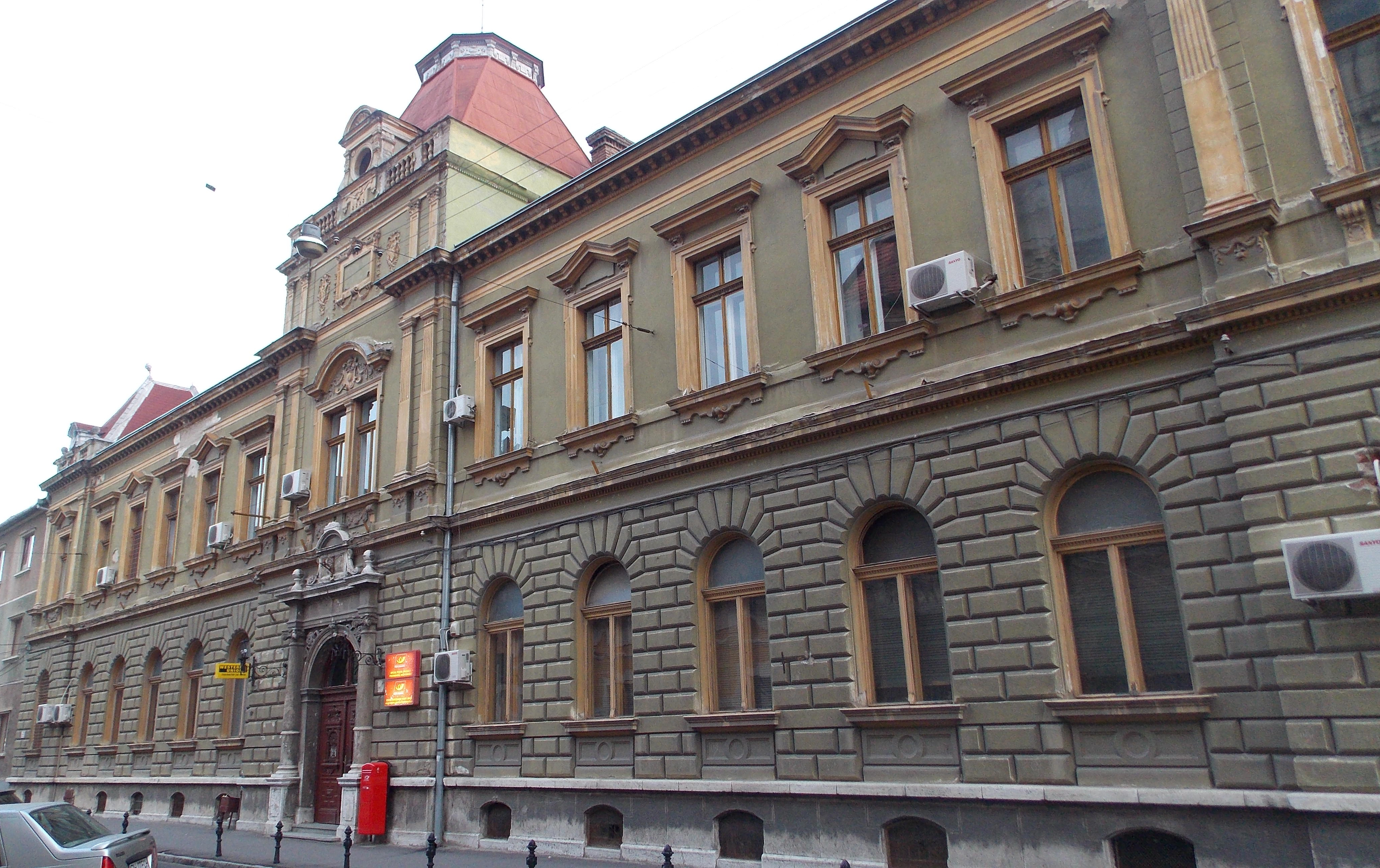 Palace of the Postal Service - Oradea